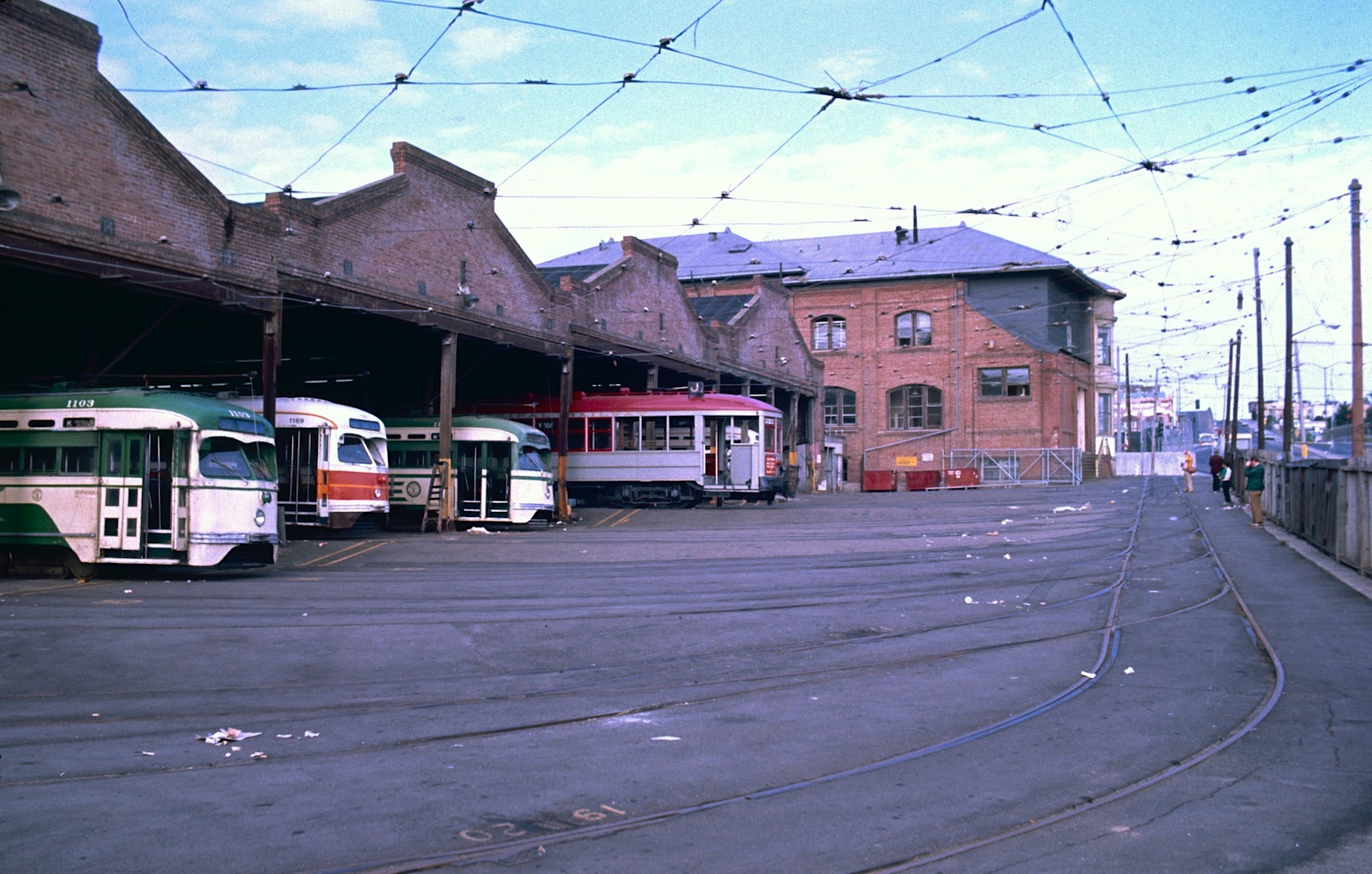 San Francisco Muni's former Geneva Car Barn, from its northeast corner, on September 19, 1982, which was the last day that streetcars operated in service from it. It stored some PCC cars for about two months more, before it was demolished in January 1983 – leaving only the office building and power house at the corner of San Jose & Geneva Avenues still standing. The office building is at the far end of this view, is still standing in the 21st century and is listed on the National Register of Historic Places. A new maintenance facility, Cameron Beach Yard, was built on the site of the Geneva Car Barn.